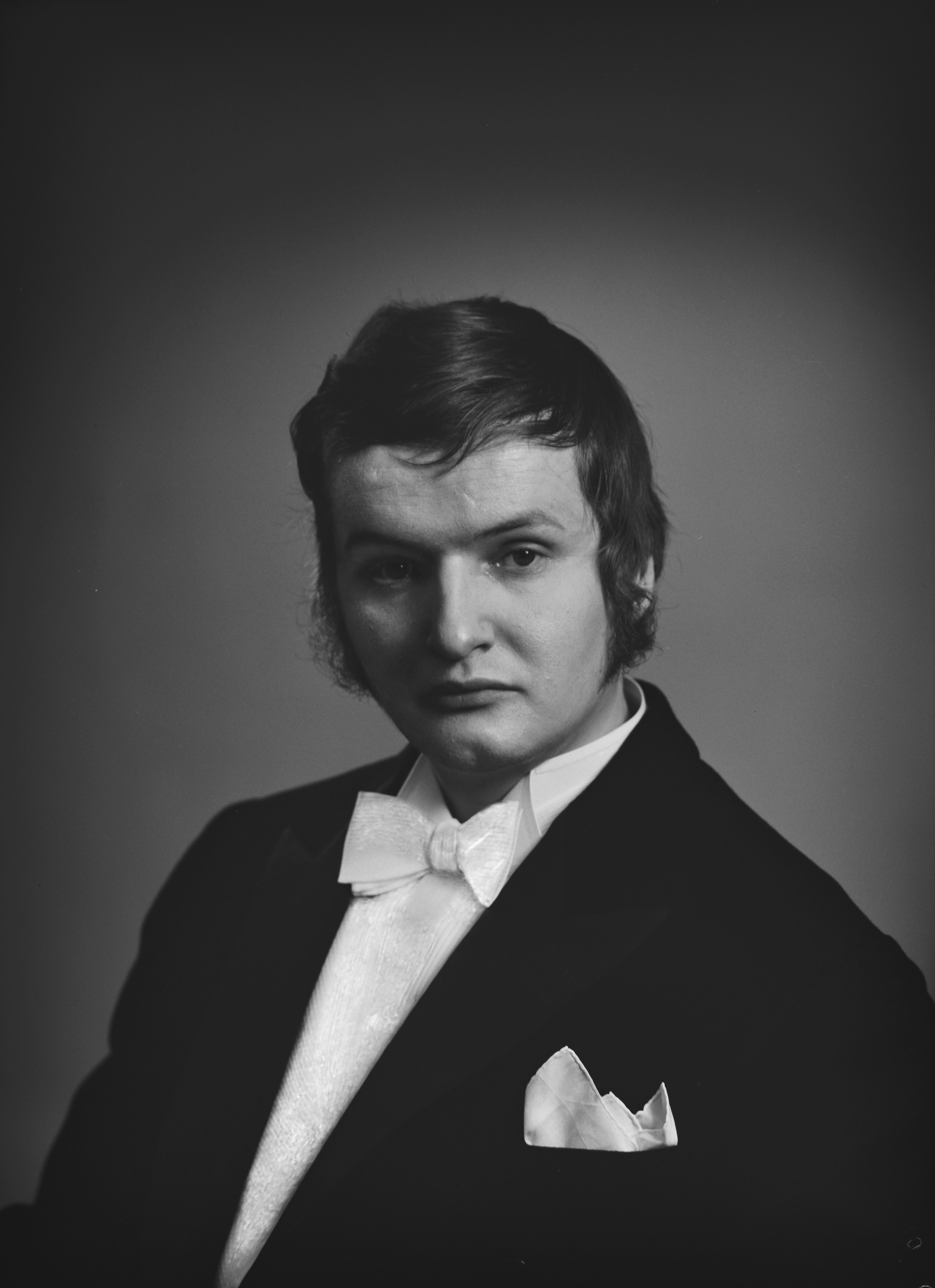 Photograph of the Finnish vocalist Rauno Keltanen (1943–).